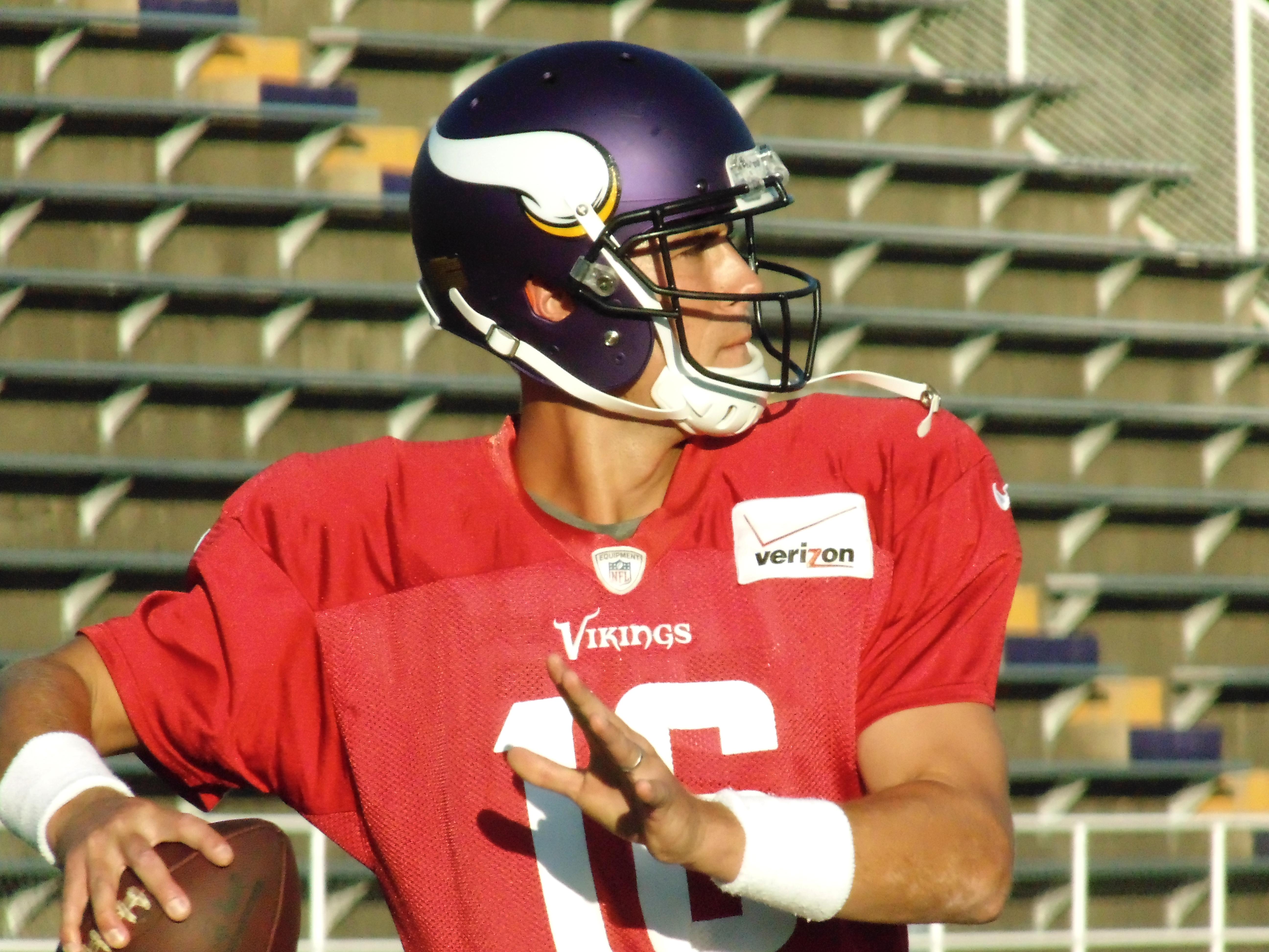 Minnesota Vikings quarterback Matt Cassel during 2014 training camp